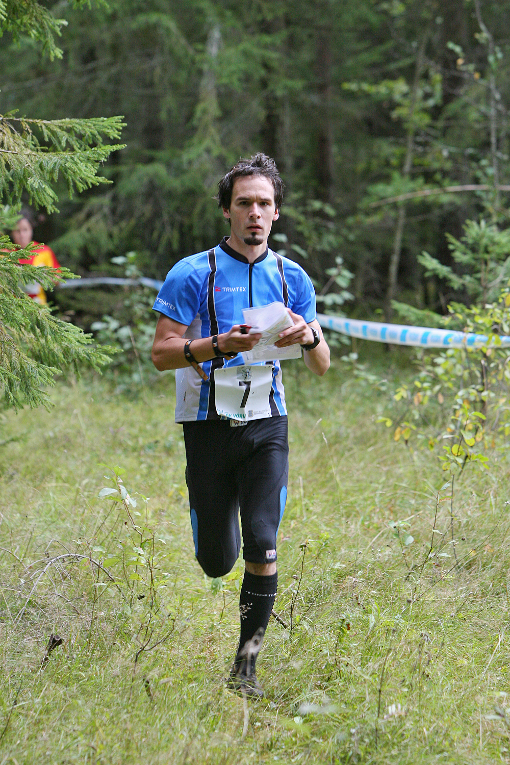 CISM 2009